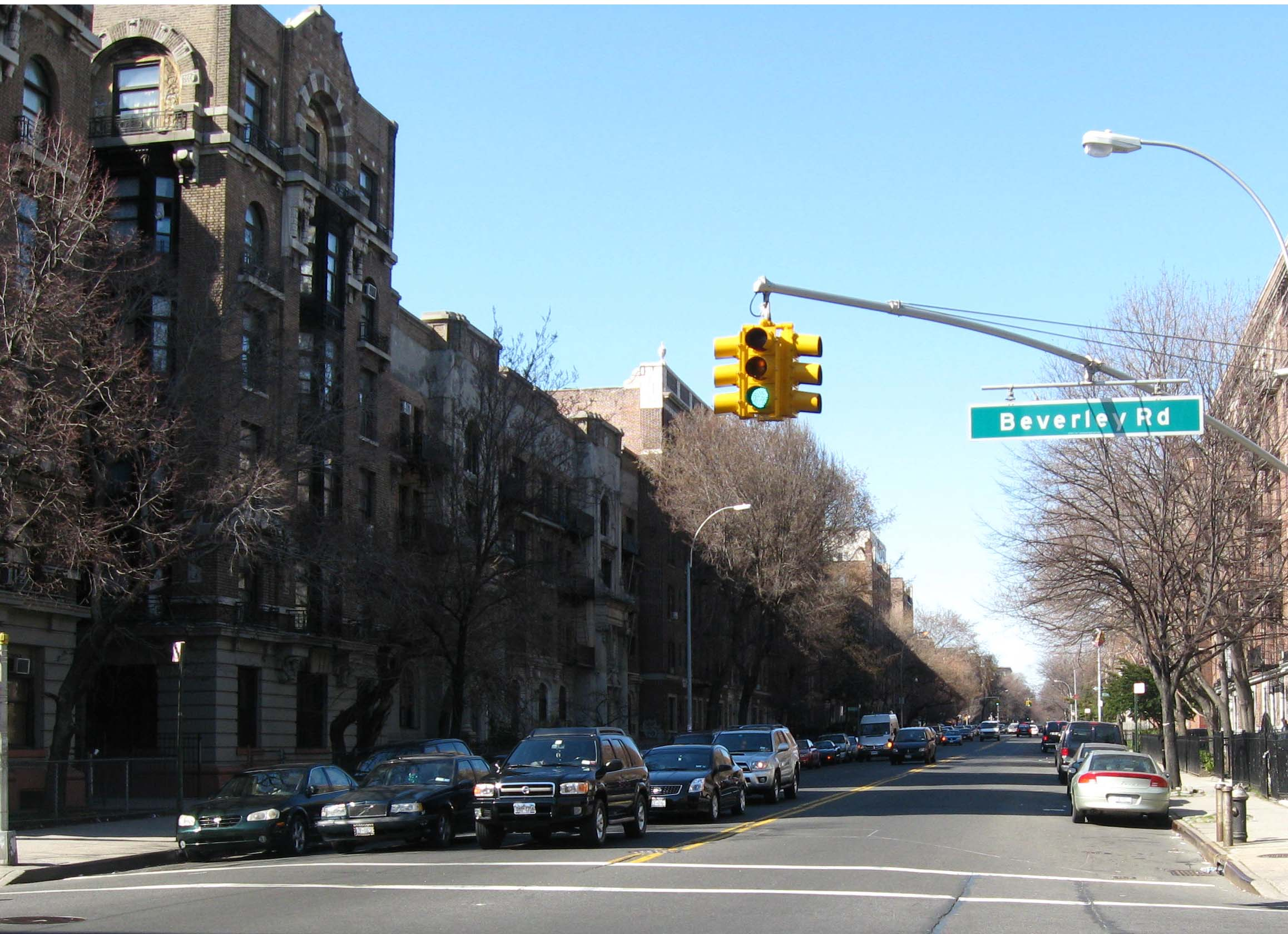 Ocean Avenue at Beverly Road. I took this picture looking north on a sunny early afternoon of early spring